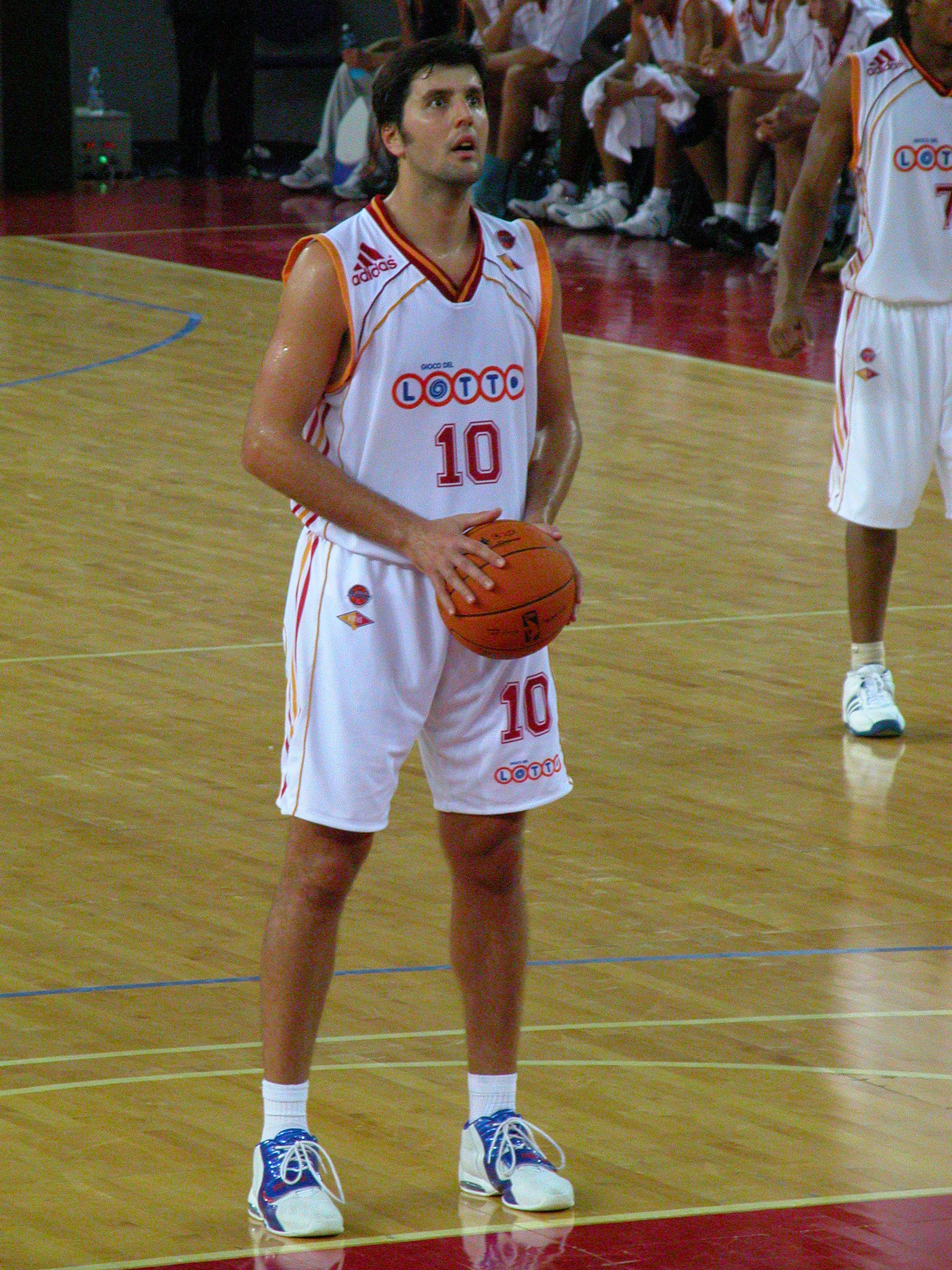 Serbian basketball player Dejan Bodiroga playing for the Pallacanestro Virtus Roma team